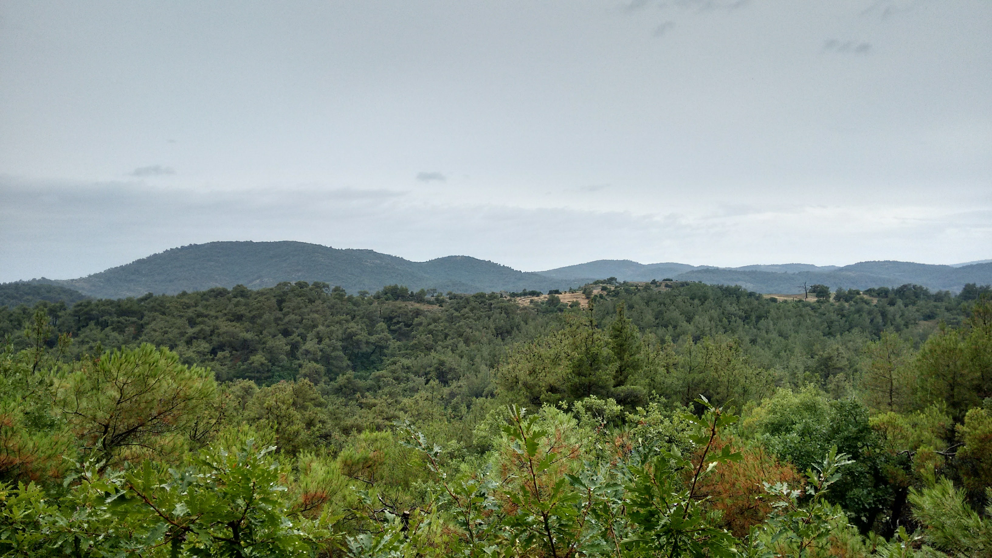 Dadia park, Vulture feeding viewpoint